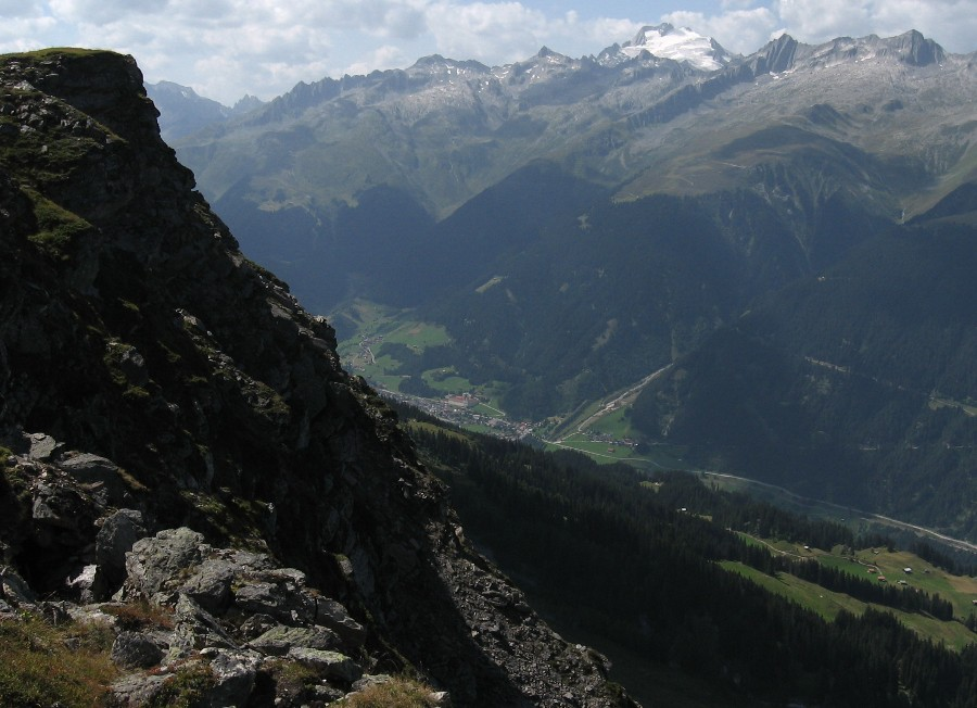 Disentis seen from southeast in the Rhine valley. Highest Peak with glacier is Oberalpstock / Piz Tgietschen